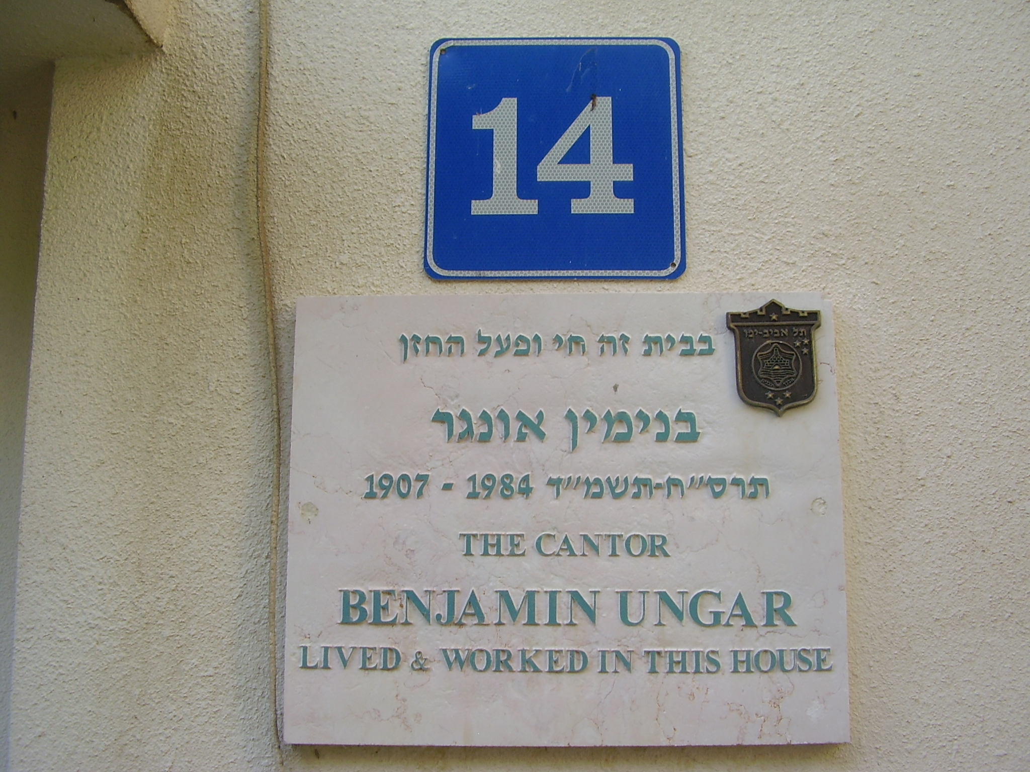 memorial plaque to the cantor benjamin ungar in tel aviv לוחית זיכרון על ביתו של החזן בנימין אונגר ברח' נתן החכם 14 בתל אביב